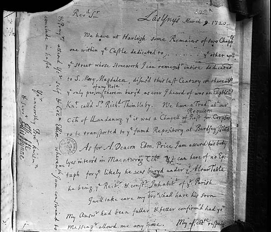 1 negative : glass, dry plate, b&w ; 23 x 23 cm.